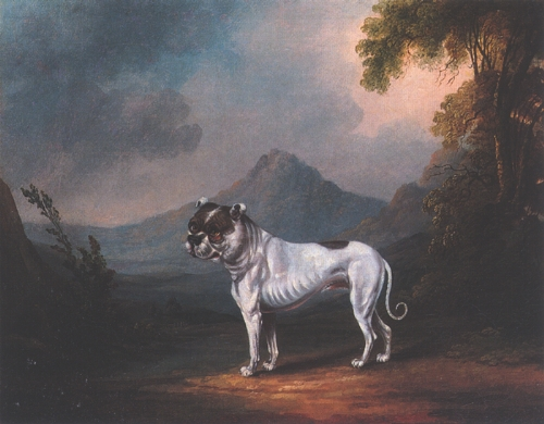 Portrait of the bulldog Ball in a landscape. The Old English Bulldog model of Philo-kuon standard.